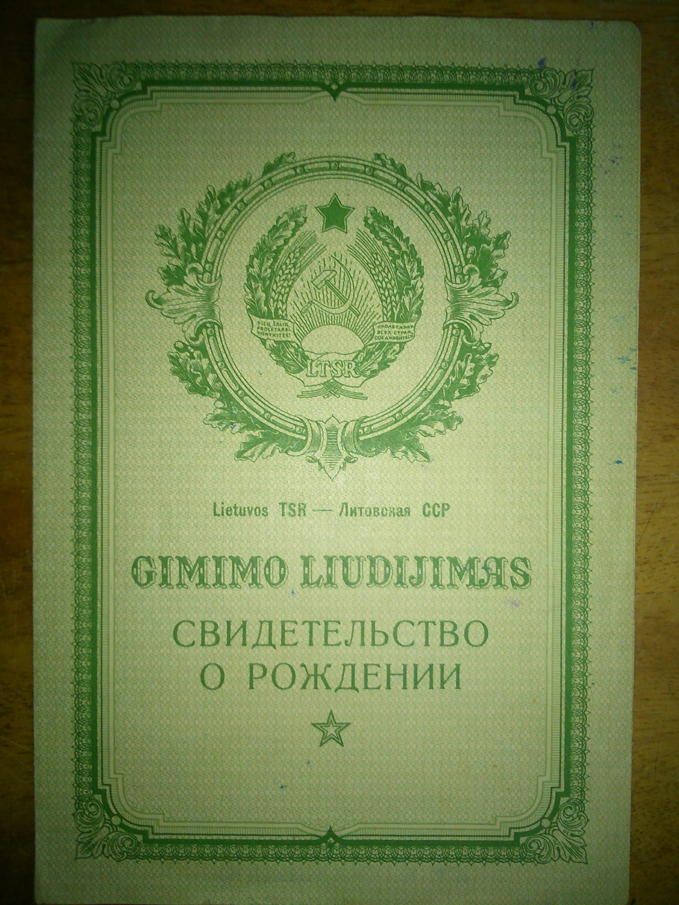 Gimimo liudijimas, LTSR